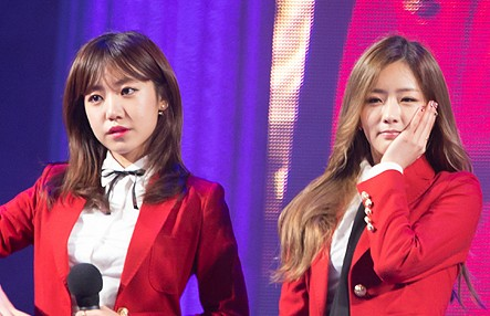 Kim Namjoo (left) and Yoon Bomi (right) at Kyunghee University, 31 October 2014